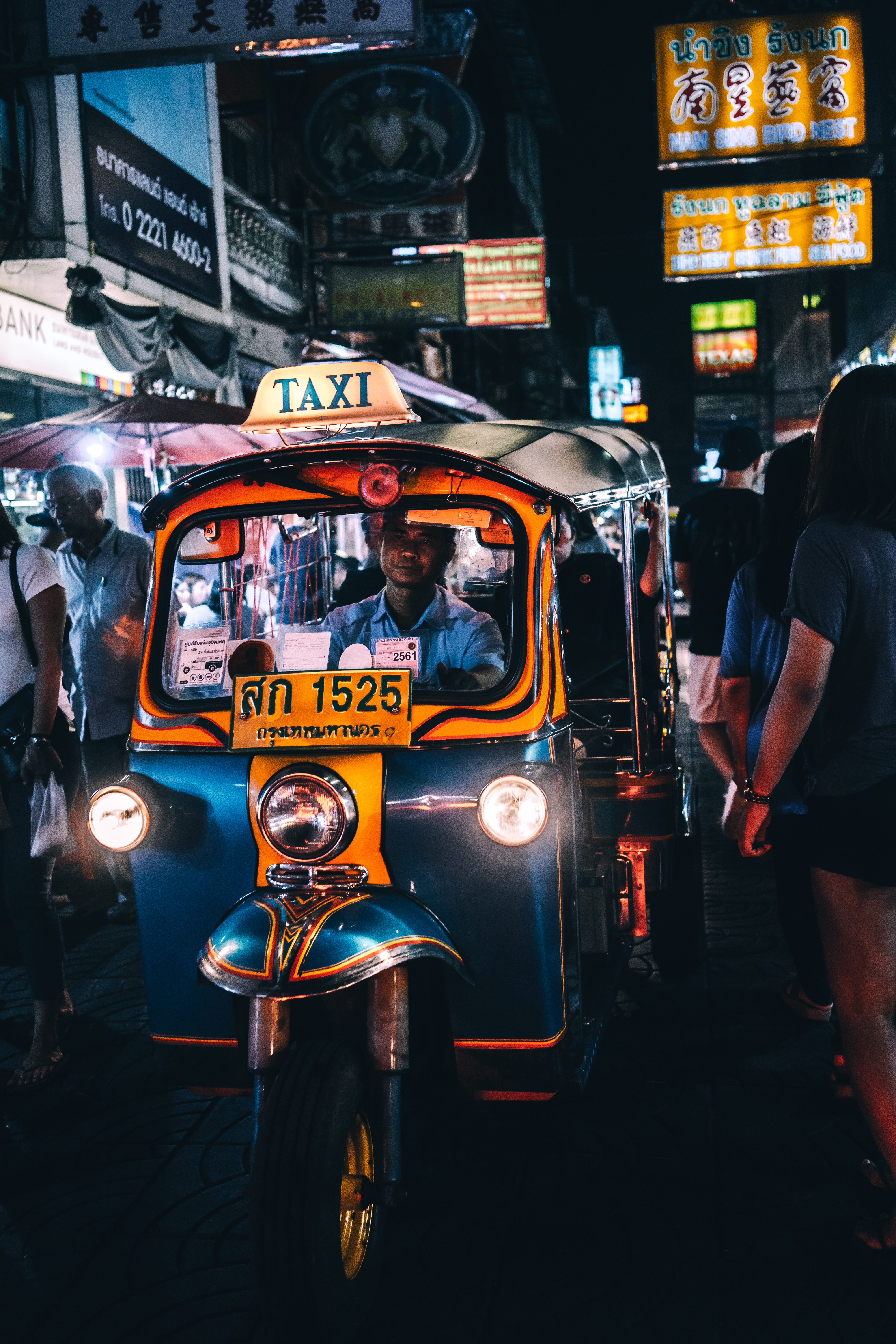 Yaowarat Road, Bangkok, Thailand